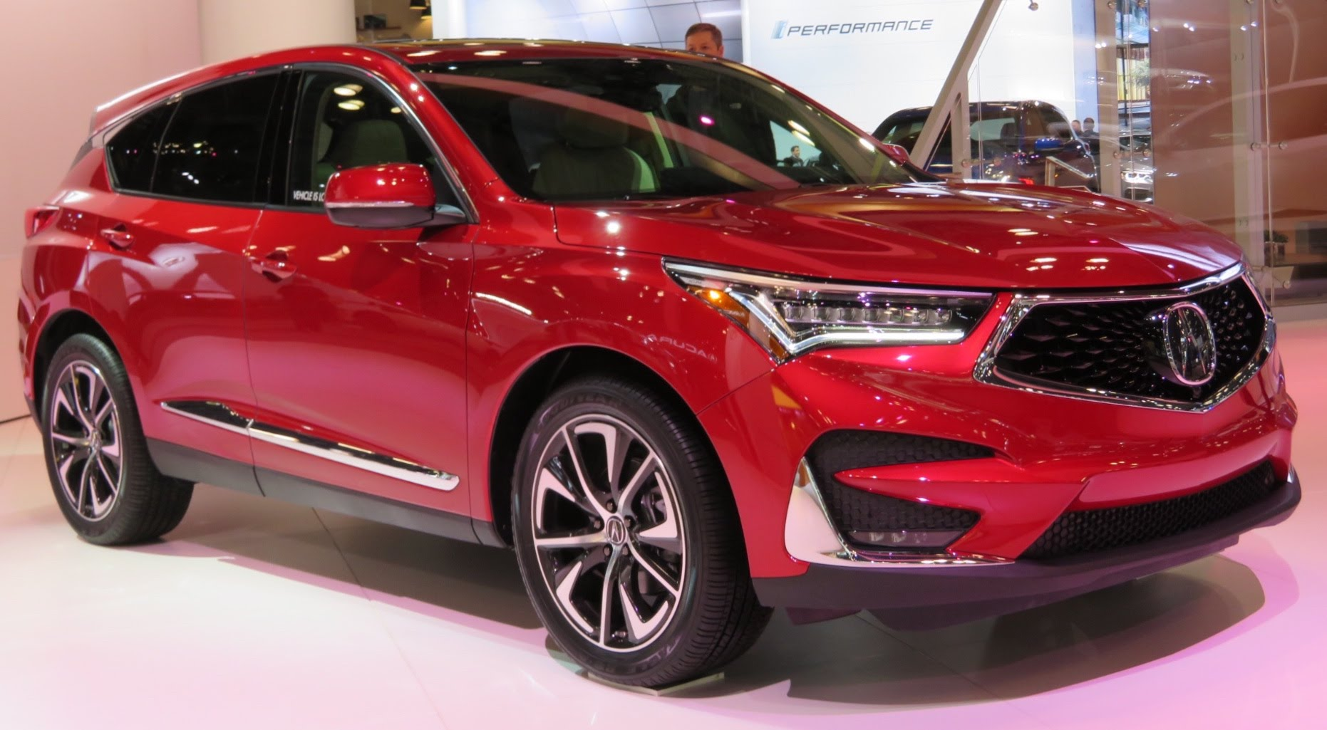 In New York International Auto Show, at Manhattan, New York, USA.